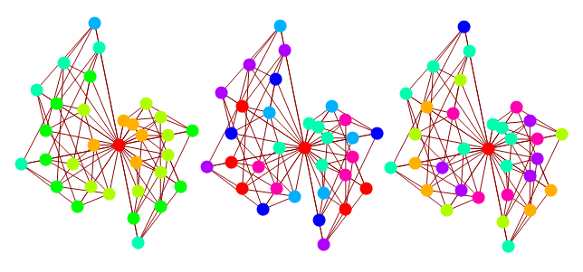 Illustration of tunable topology of the NK model. N = 5, K = 0, 1, 2. Colours of nodes are fitness, with arbitrarily-chosen fitness functions.